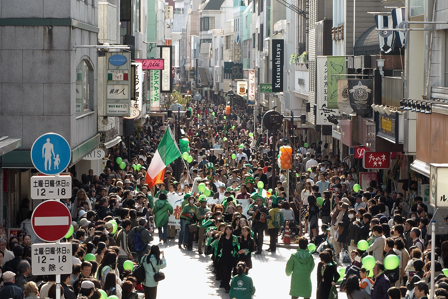 Saint Patrick's Day in Motomachi street, Yokohama, Japan.